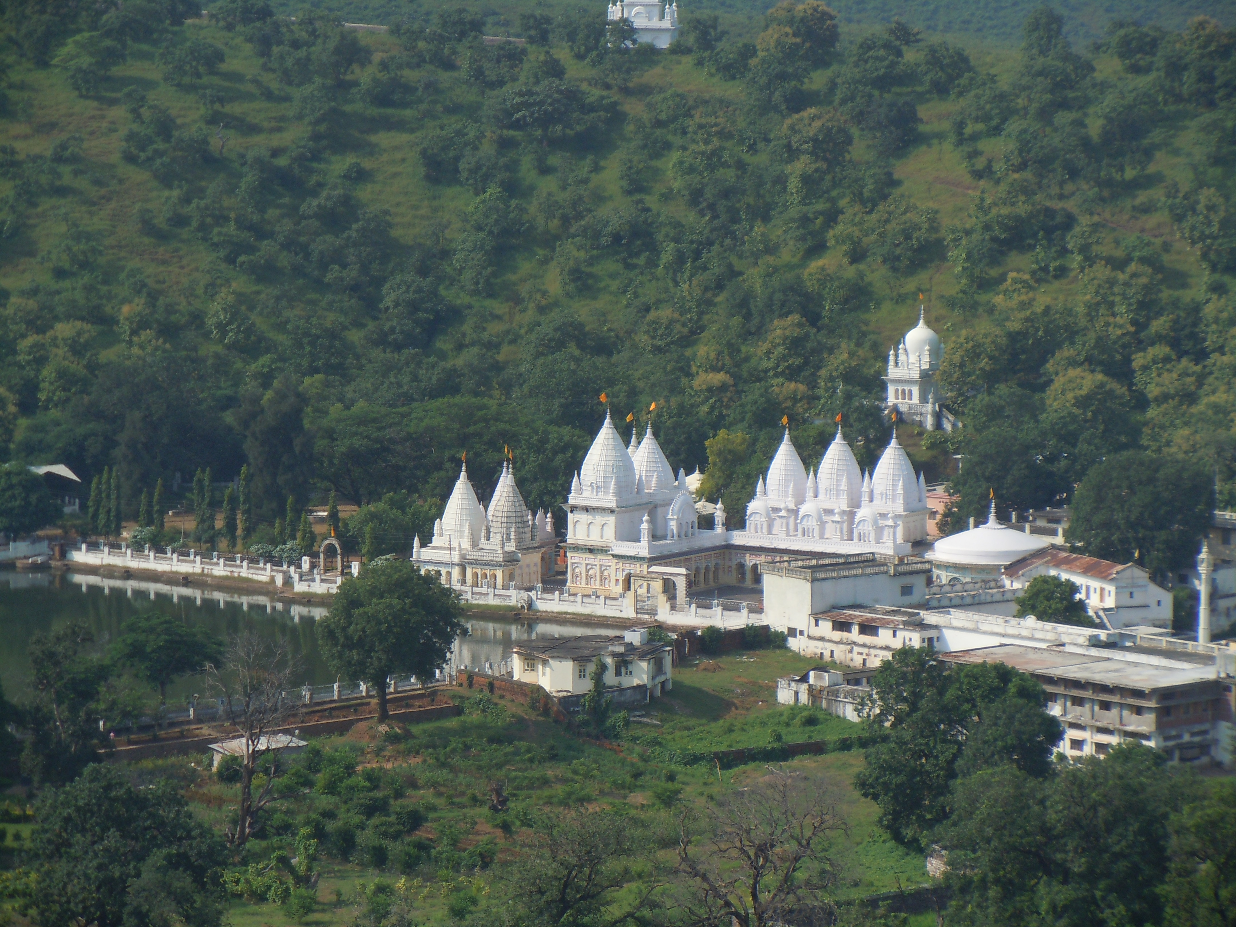 this photo is taken from the height of 1000 ft approx it look so beautiful i think it would help if there was a real decripsion